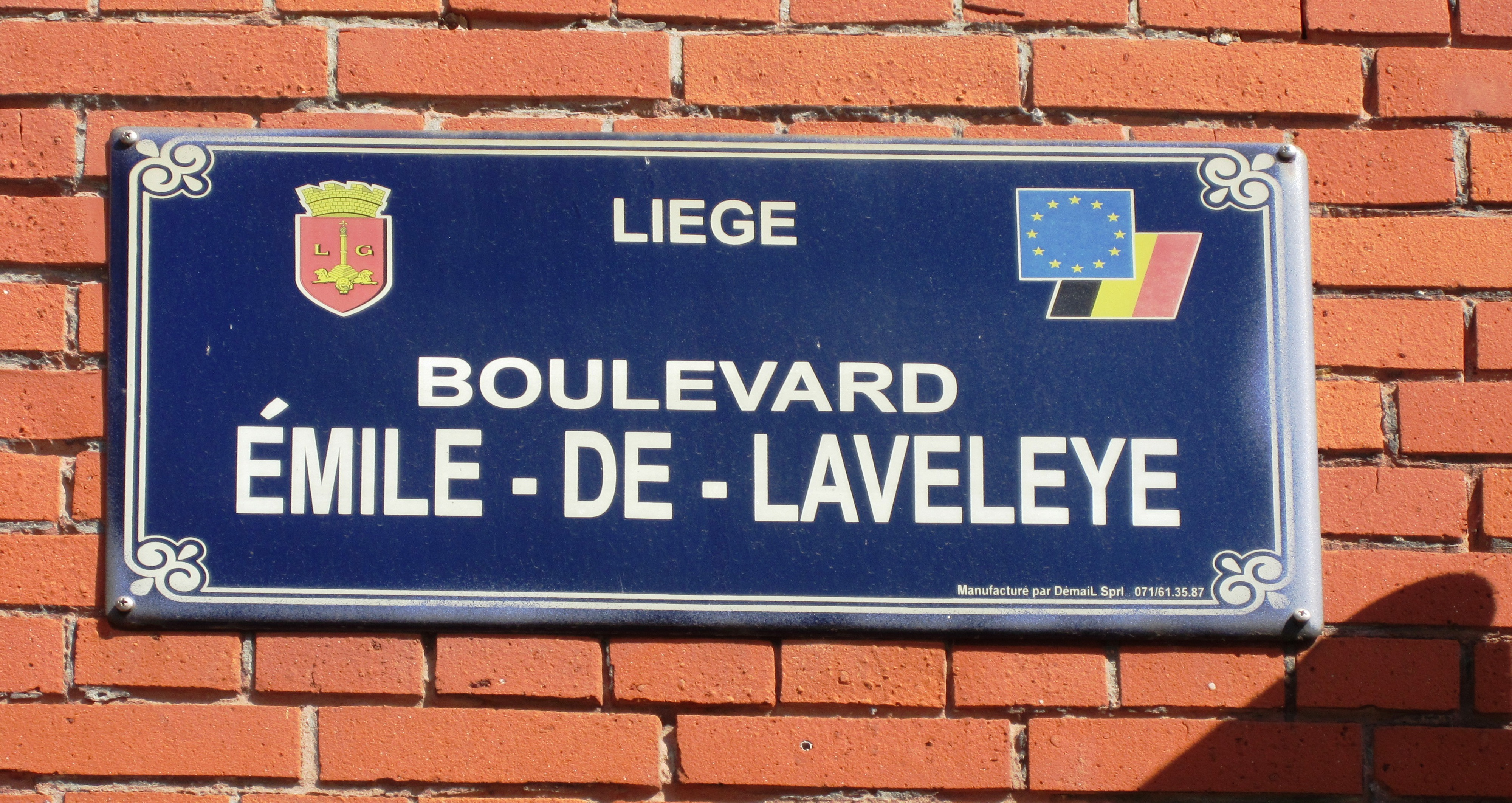 Street sign of boulevard Émile de Laveleye